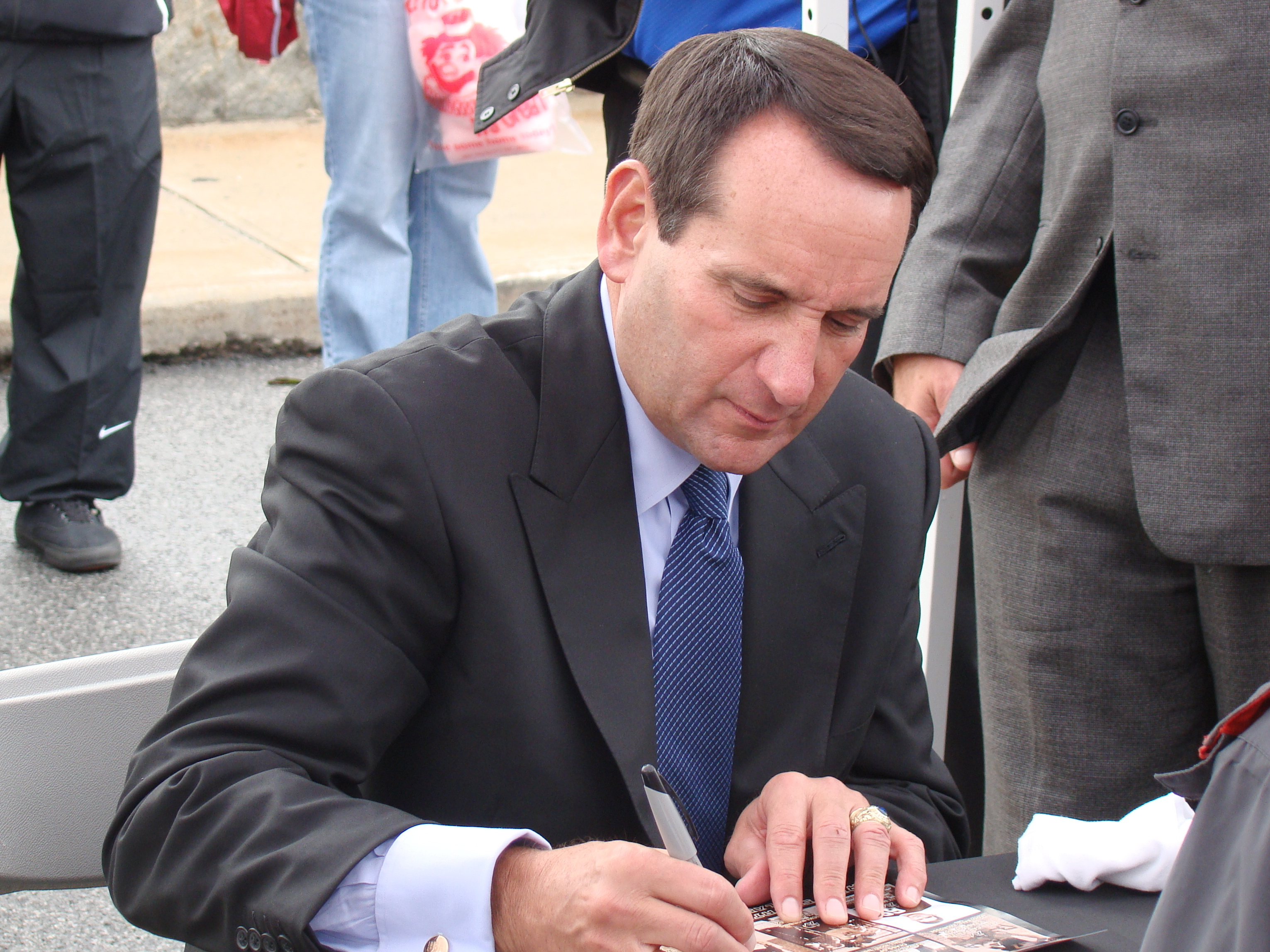 Coach Mike Krzyzewski signing autographs at his Army Sports Hall of Fame induction at West Point vs Duke Football game